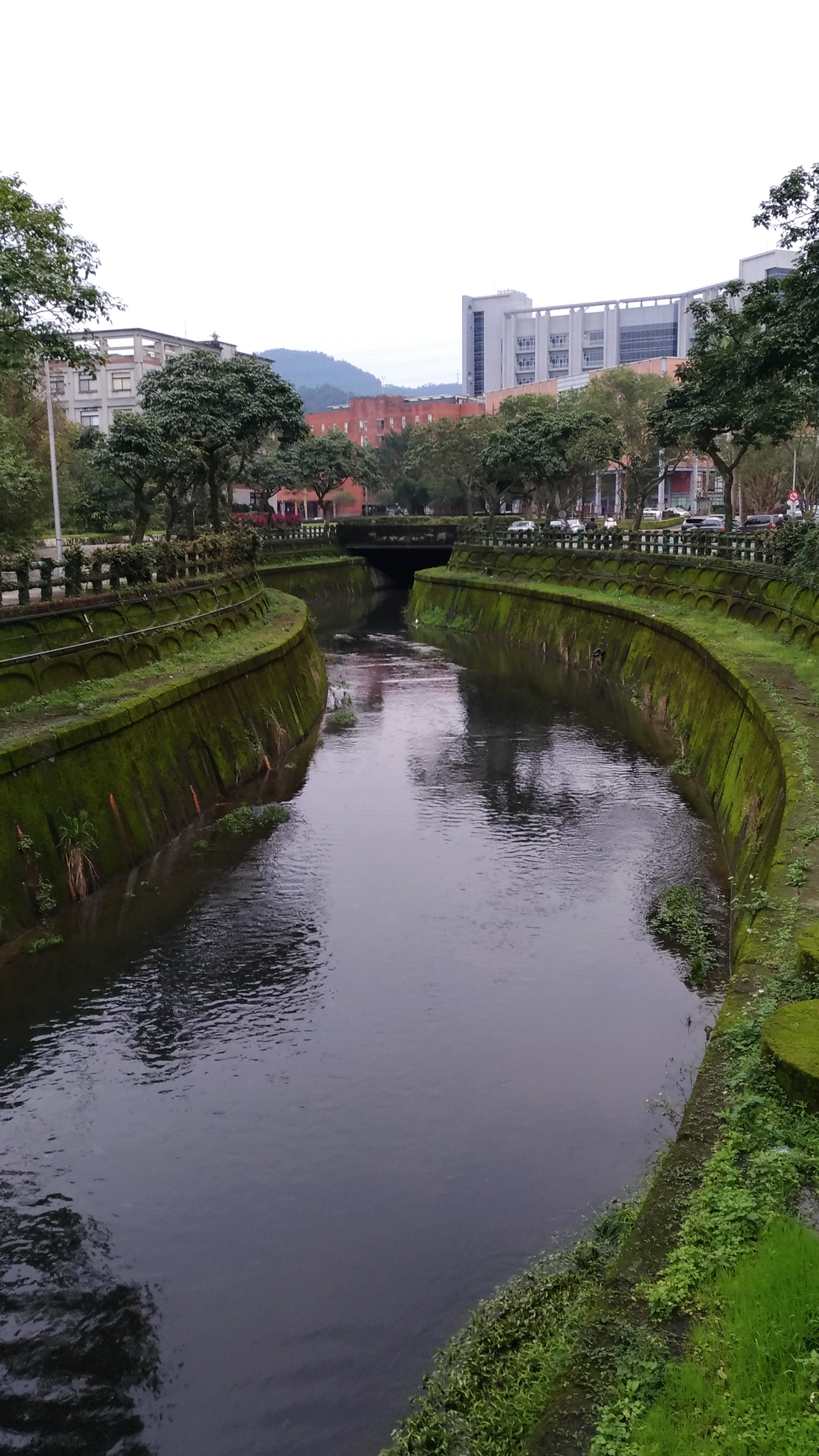 Sih-Fen Brook, AS, Taiwan